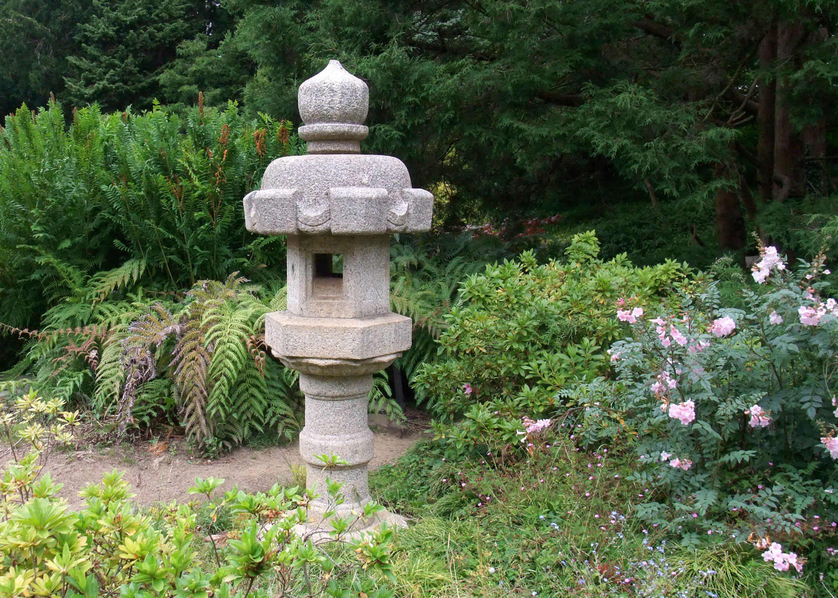 Japanese Lantern in the San Francisco Botanical Garden